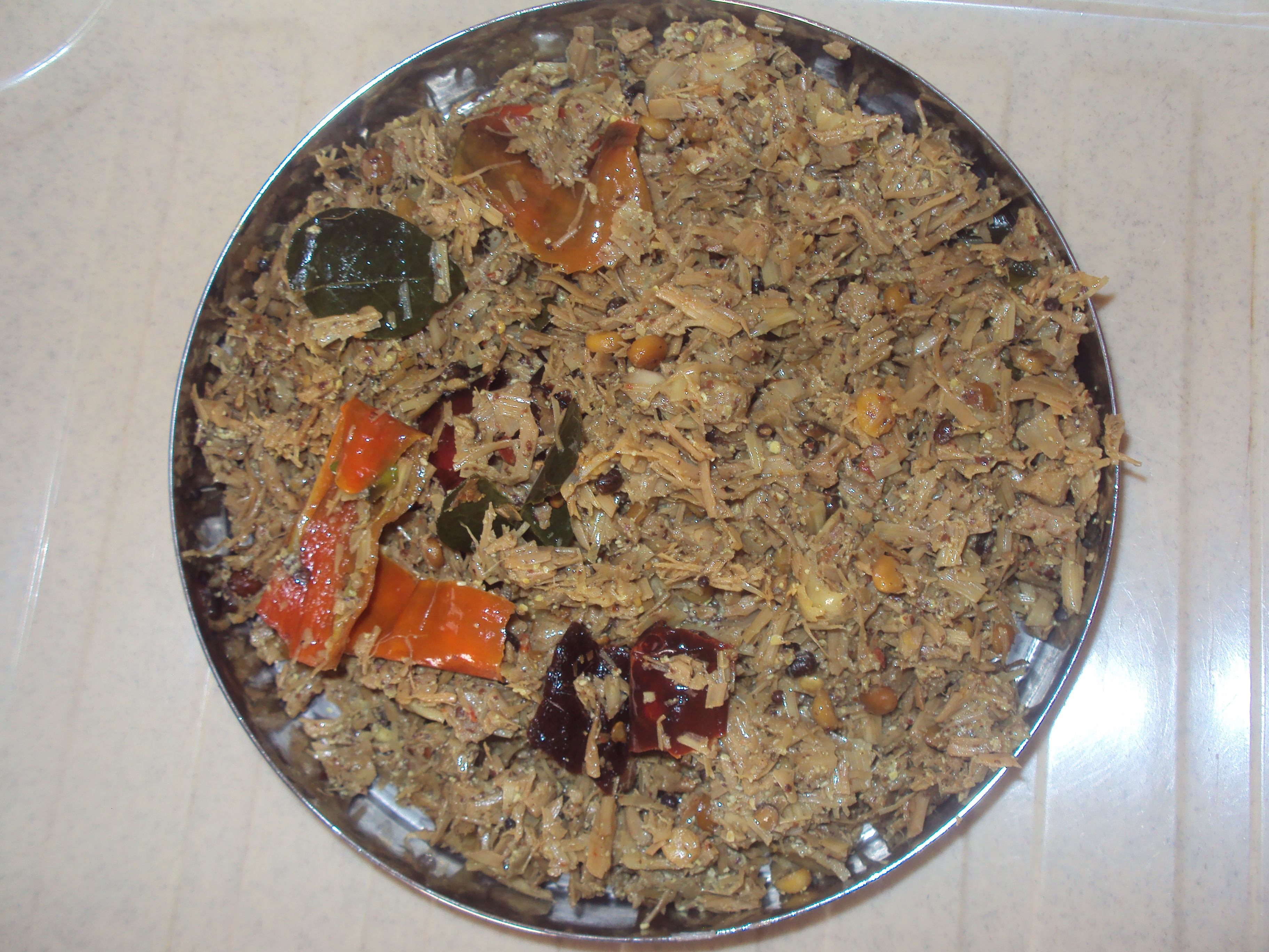 Andhra pradesh cuisine prepared by using jack fruit.